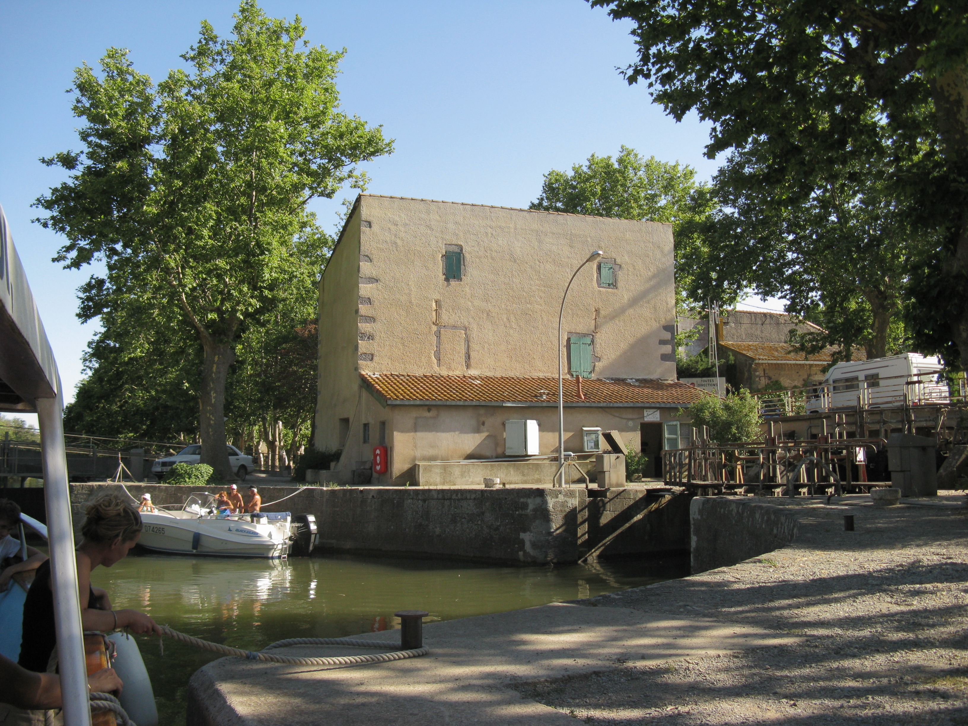 The round lock and the house of the lock keeper at Agde, France, on the Hérault river.